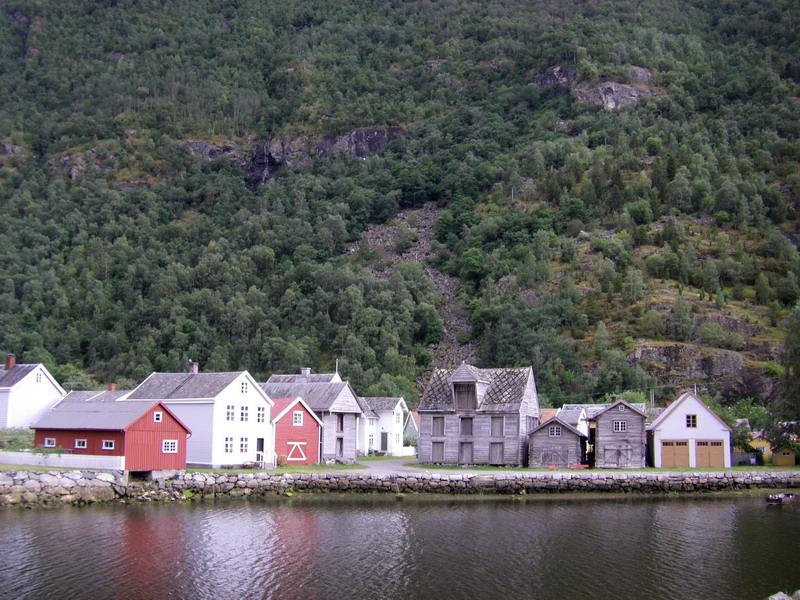 Gamle Laerdalsoyri/Norway